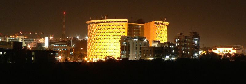 Panoramic shot of cyber towers building in Hyderabad at evening.